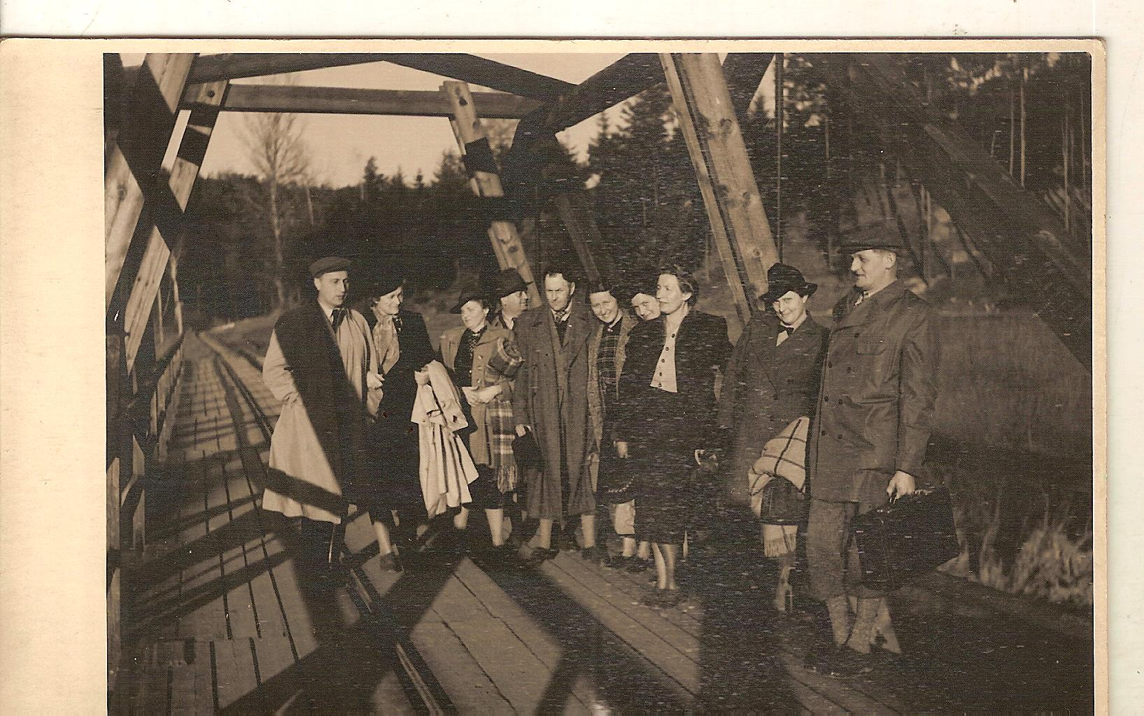 Wooden bridge over river Sázava (Sasau) cennecting Mrzkovice and Mariadol (Světlá nad Sázavou)